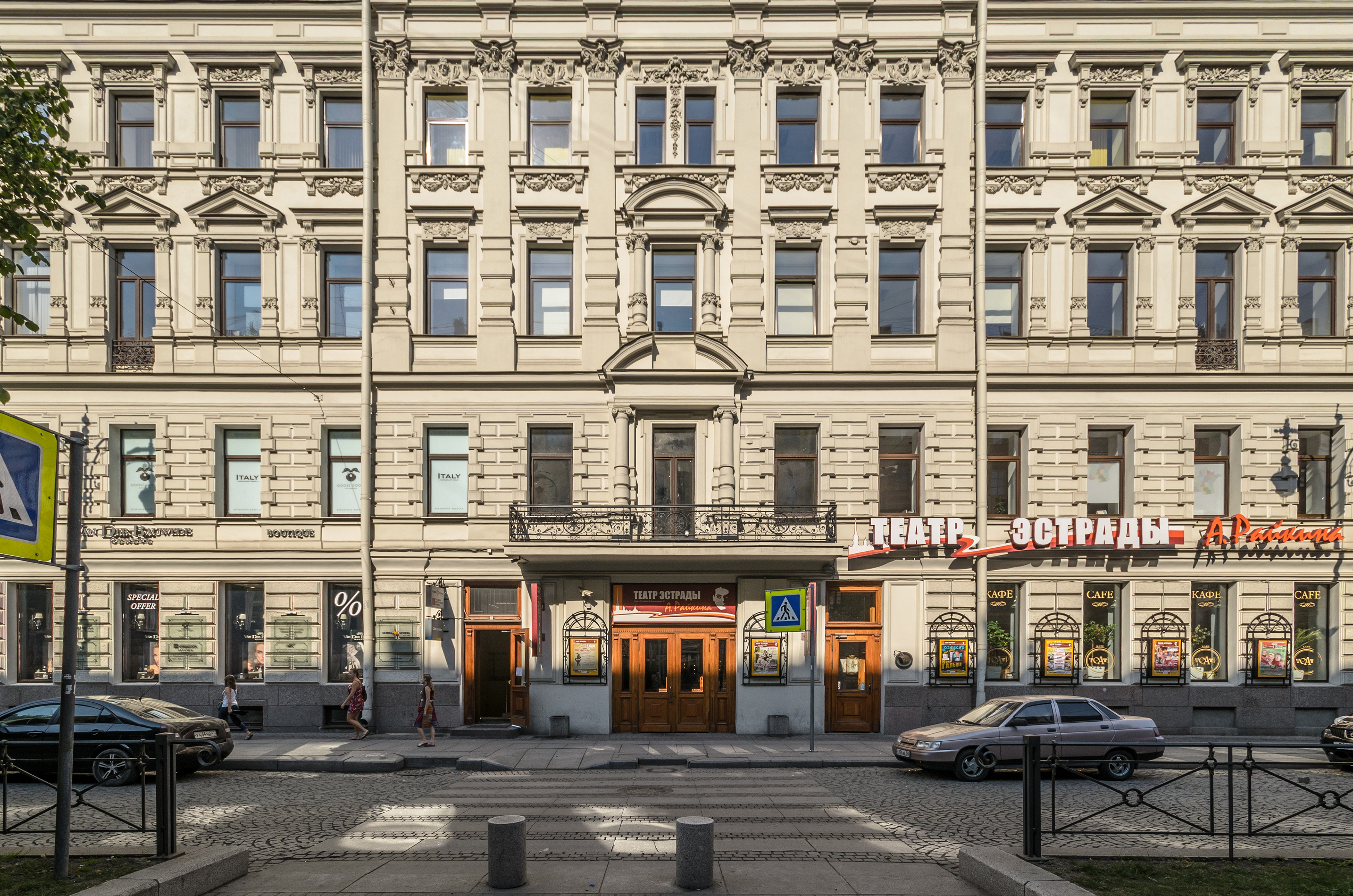 Arkady Raikin Variety Theatre in Saint Petersburg